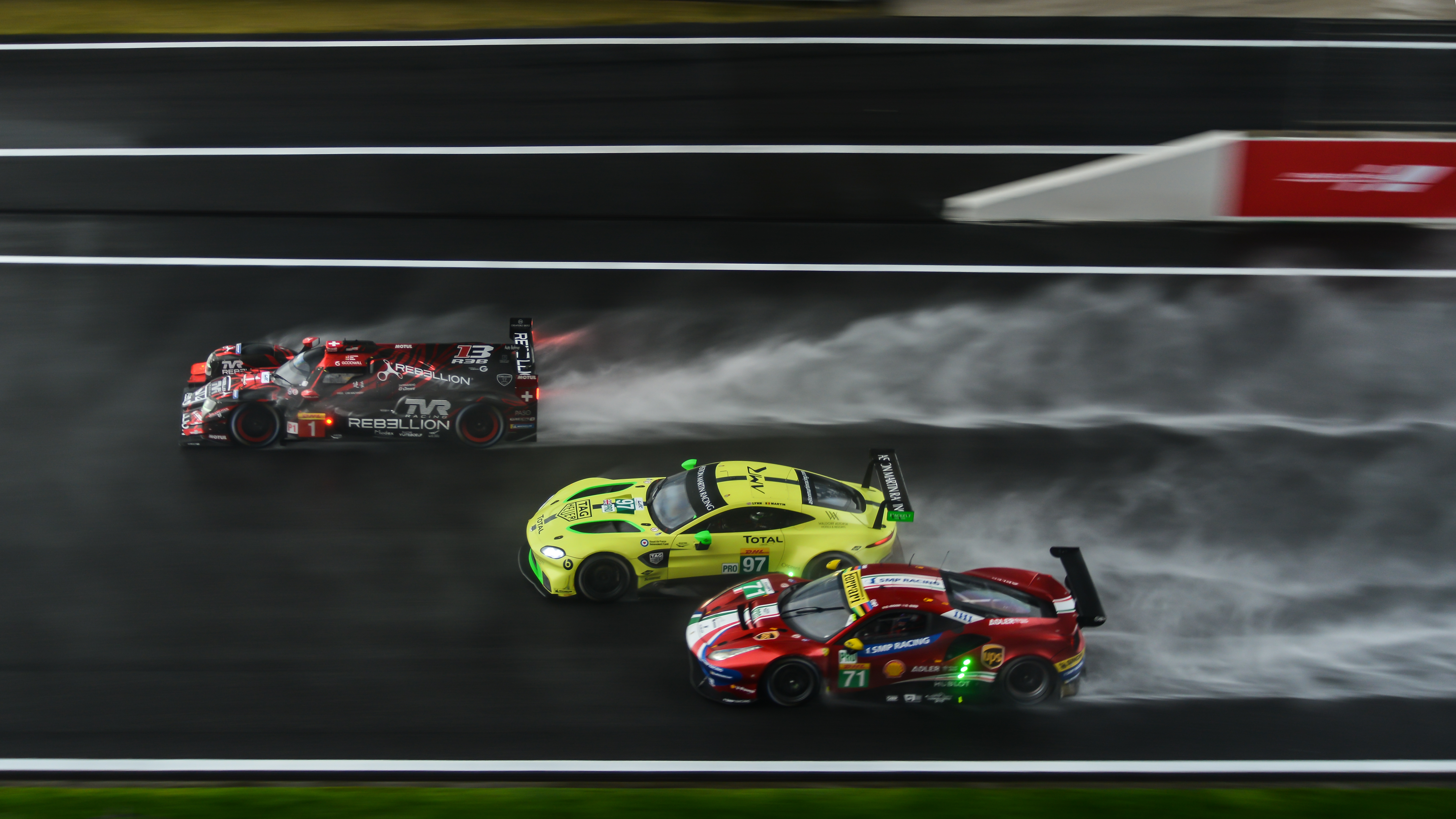 2018 6 Hours of Shanghai.